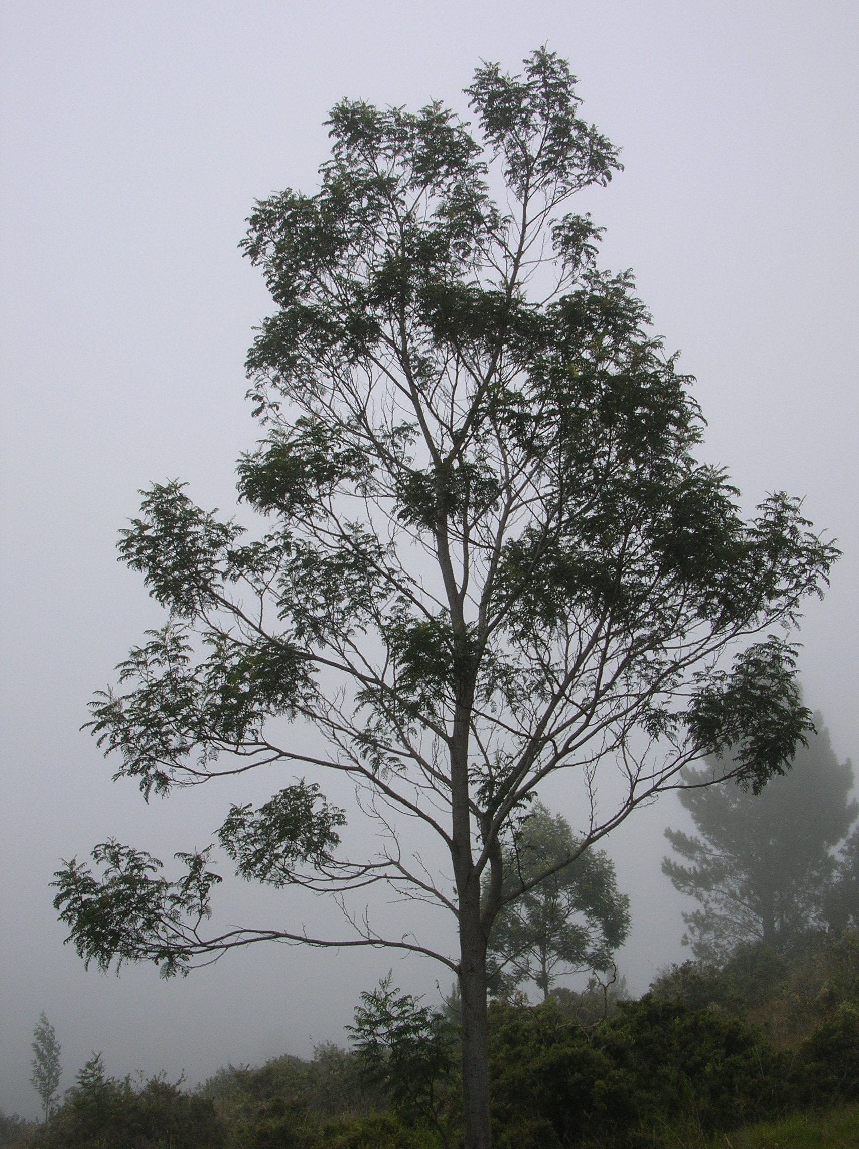 Acacia mearnsii (habit). Location: Maui, Puu Makua